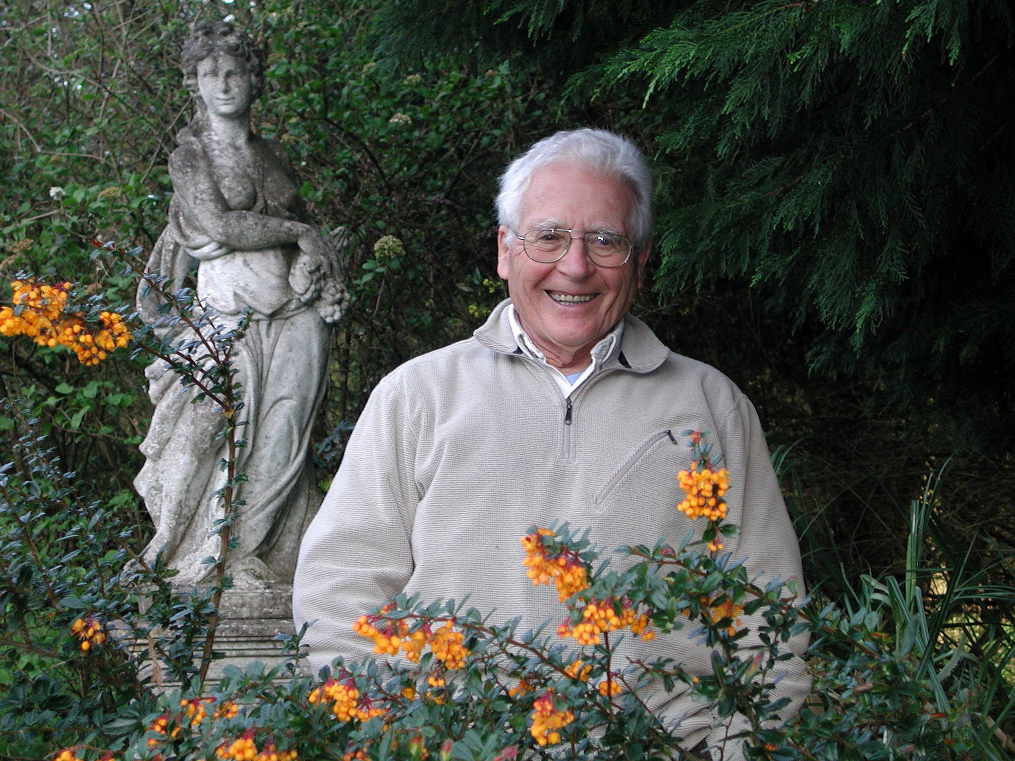 James Lovelock, scientist and author best known for the Gaia hypothesis. Photograph taken in 2005 by Bruno Comby of Association of Environmentalists For Nuclear Energy. Original at Released under the Creative Commons Attribution-ShareAlike license versions 2.5, 2.0, and 1.0.